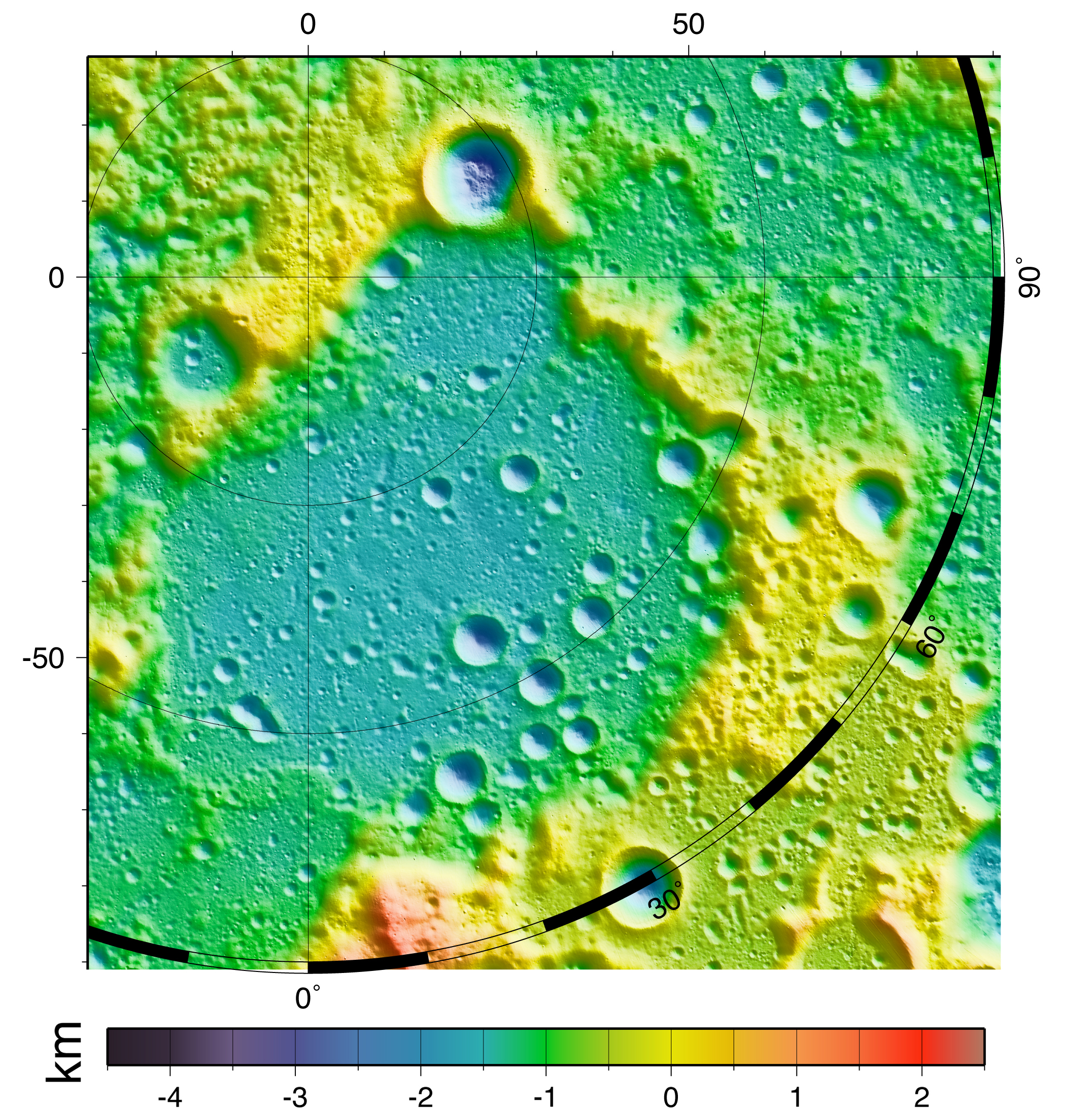 Peary Crater (diameter 73 km), located near the lunar north pole, has been a subject of interest for many lunar scientists for years. In the 1990's NASA's Clementine mission imaged the crater, and scientists identified regions surrounding Peary that they suspect remain constantly in daylight throughout the 28 day lunar cycle. However parts of Peary's interior remain in permanent shadow at all times, providing only limited views of its contents. Topographical data from LOLA reveal details hidden in permanently shadowed regions, like those in Peary, that visible light cameras cannot easily image.